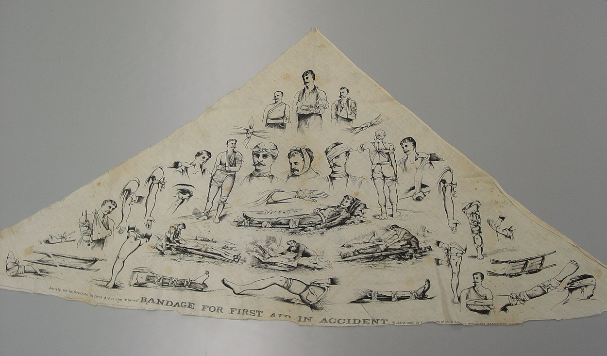 Esmarch Bandage